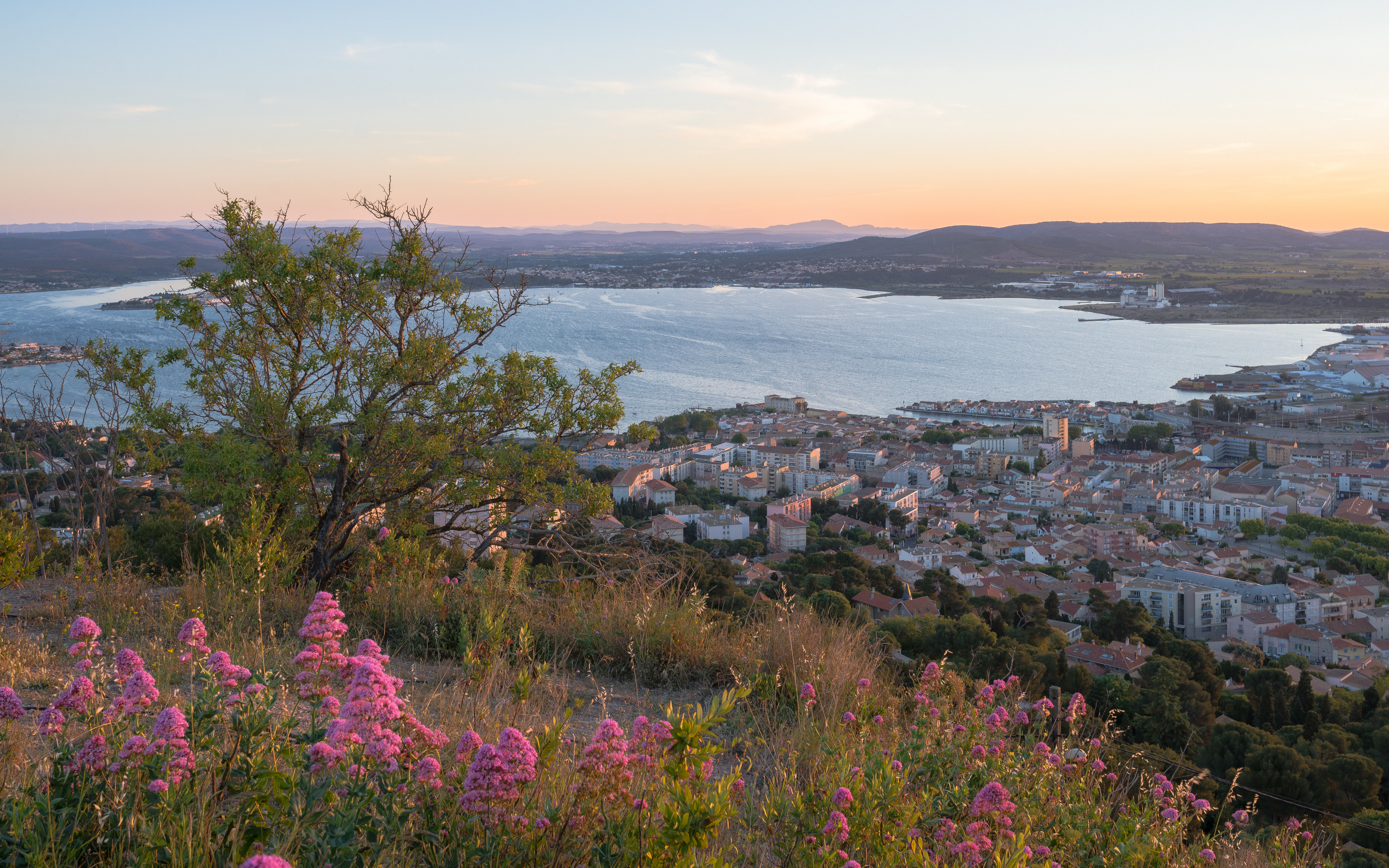 Dawn on a part of Sète and of the Étang de Thau. Hérault, France.